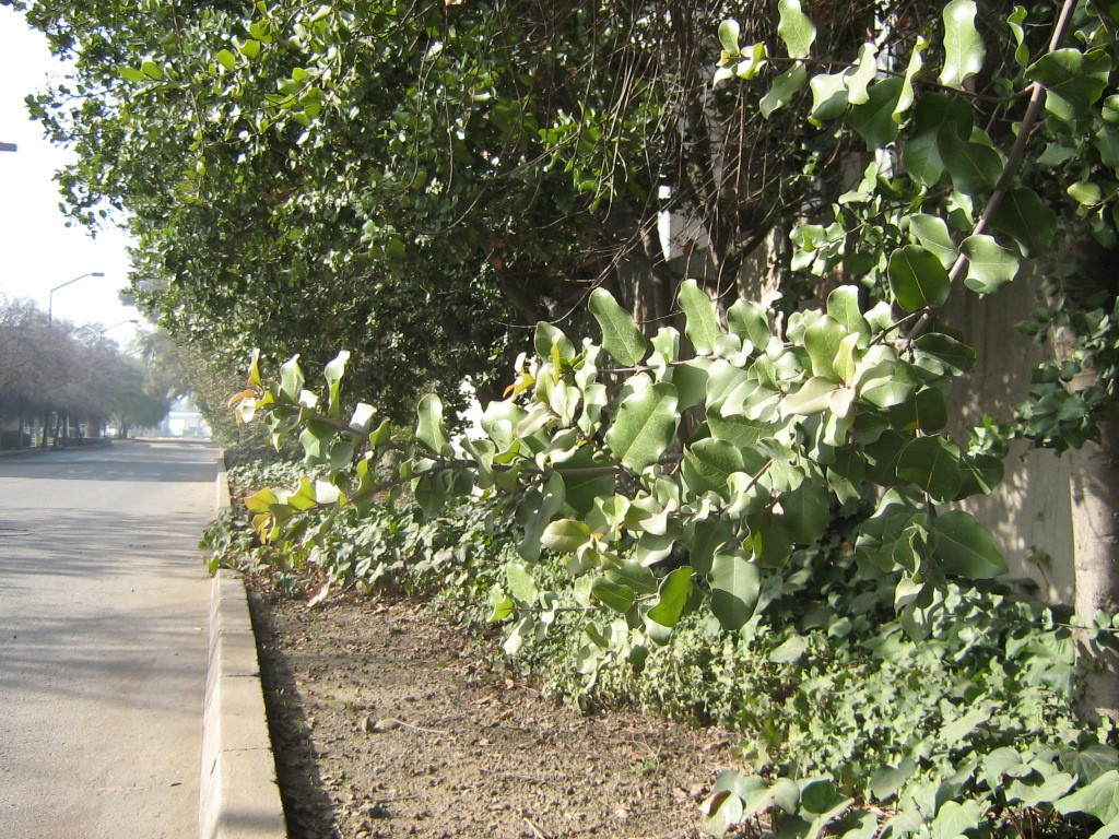 Cryptocarya alba